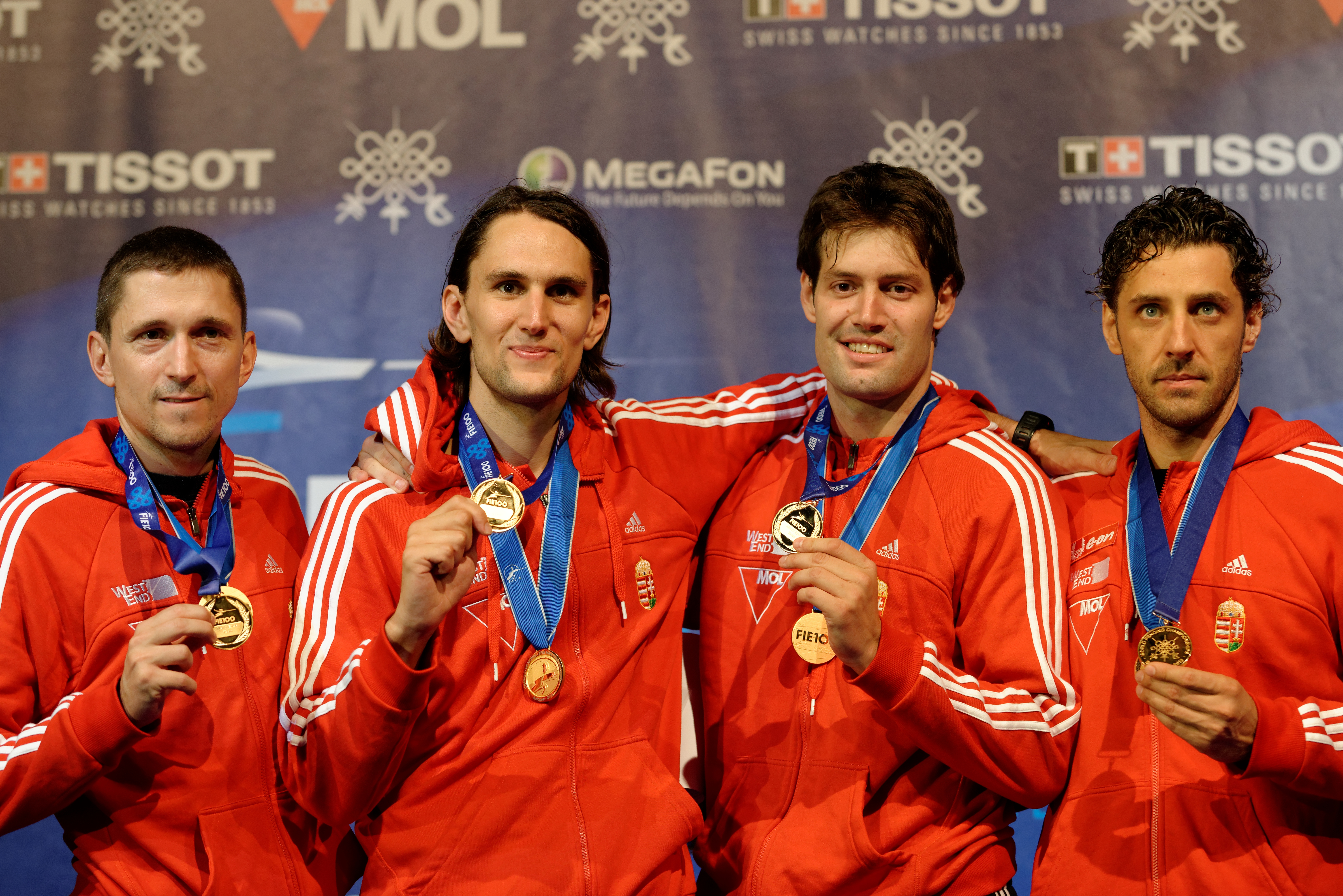 Hungary national men's team épée (from left to right, Géza Imre, András Rédli, Péter Szényi, and Gábor Boczkó) stand on the podium of the 2013 World Fencing Championships 2013 at Syma Hall in Budapest, 11 August 2013.